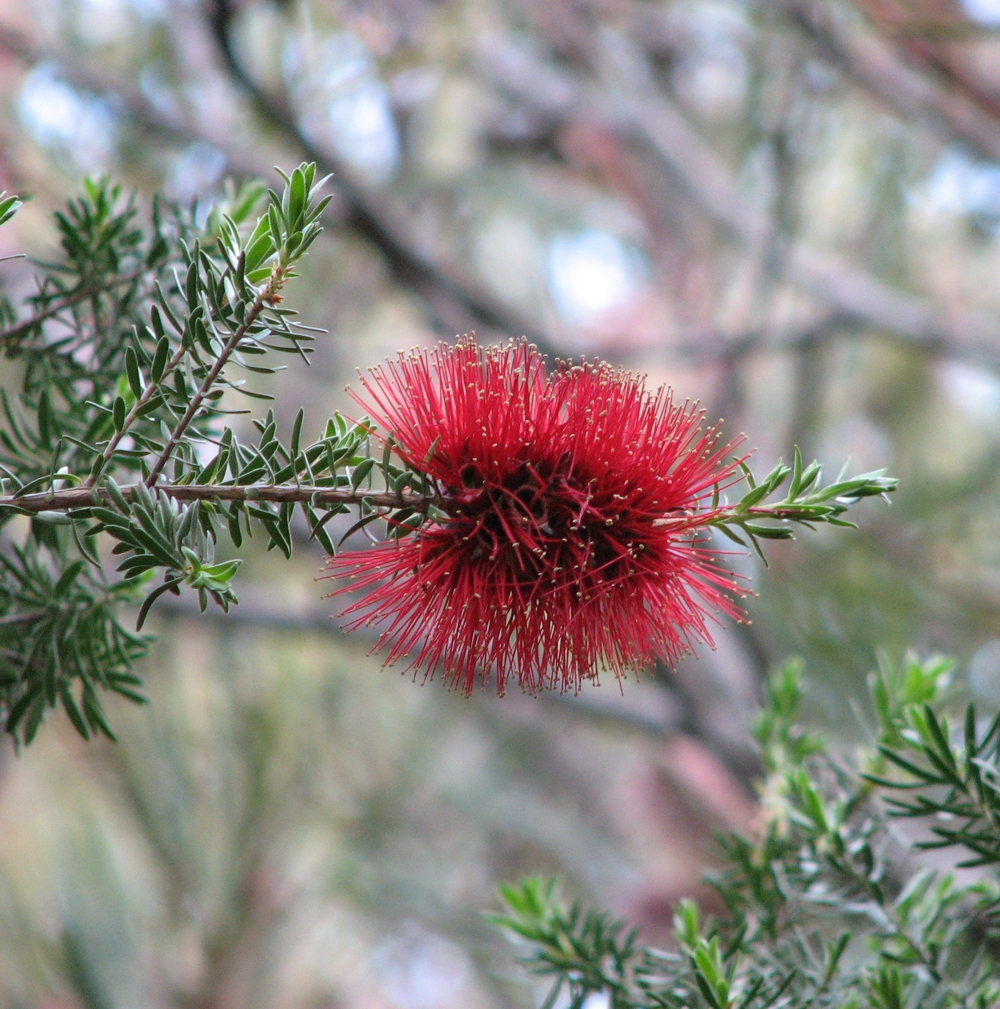 Kunzea baxteri (cultivated, labelled) Maranoa Gardens, Balwyn, Victoria, Australia